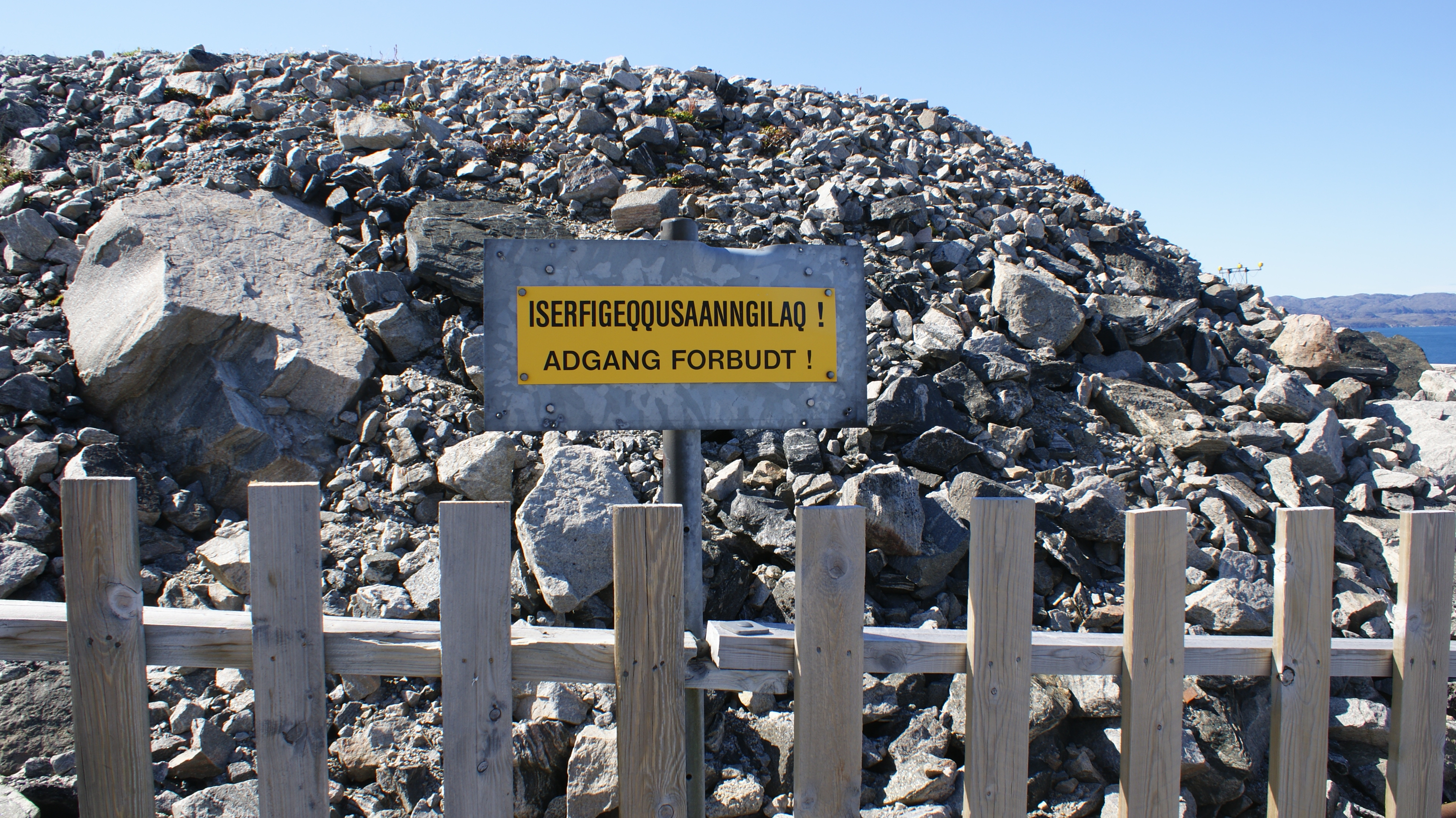 Nuuk Airport (GOH), Greenland. Runway scarp and fence, with the 'Iserfigeqqusaanngilaq' (entry forbidden) sign in Greenlandic and Danish.